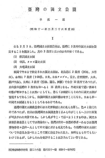 The front cover of paper "The national parks of Taiwan" by Hayasaka, Ichiro